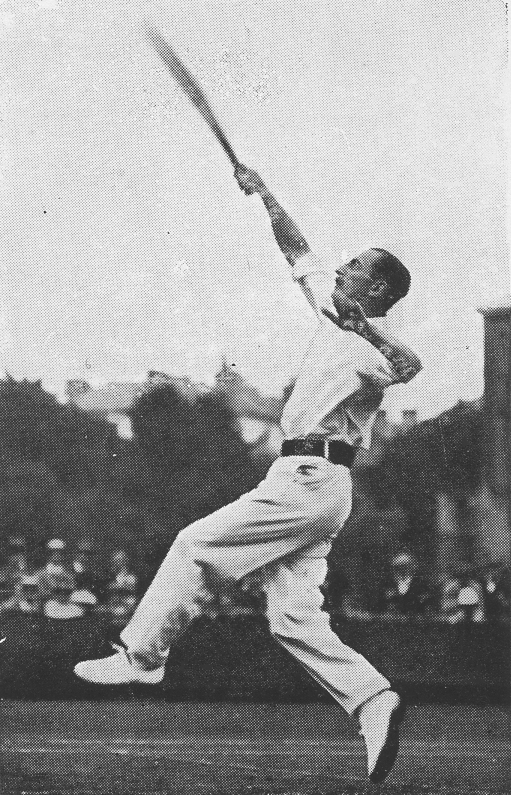 British tennis player Algernon Kingscote